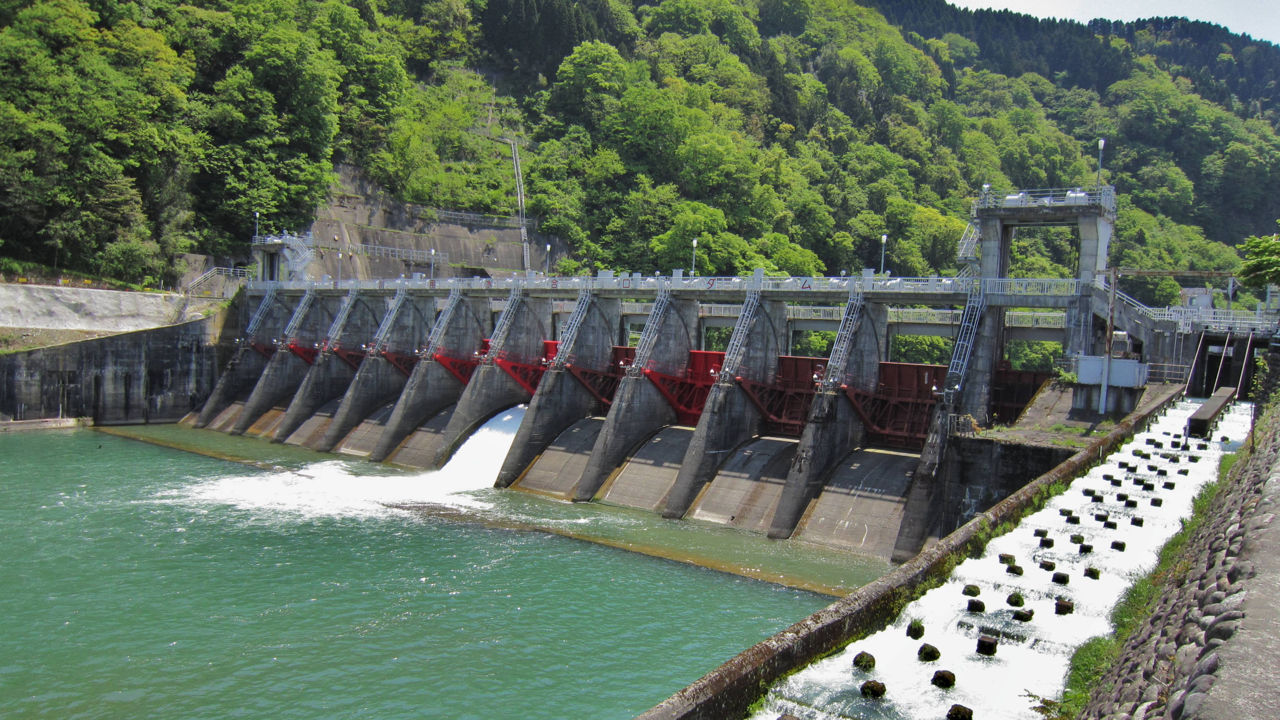 Funato Dam.